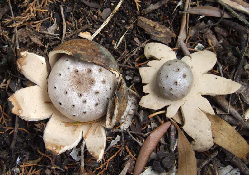 Fruit bodies of the pepperpot earthstar mushroom Myriostoma coliforme. Specimens photographed in Monsanto, Lisboa, Portugal. Original photo cropped by uploader.